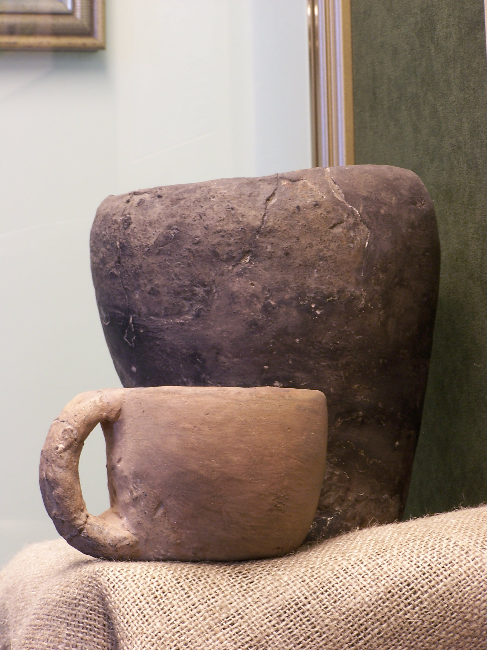 Celto-Dacian Púchov culture pottery, discovered during excavations on Castle Hill in Cieszyn. Currently form part of the rich museum exhibition at the Castle Sulkowski in Bielsko-Biala. Courtesy of Museum in Bielsko-Biala - Castle Princes Sulkowski.